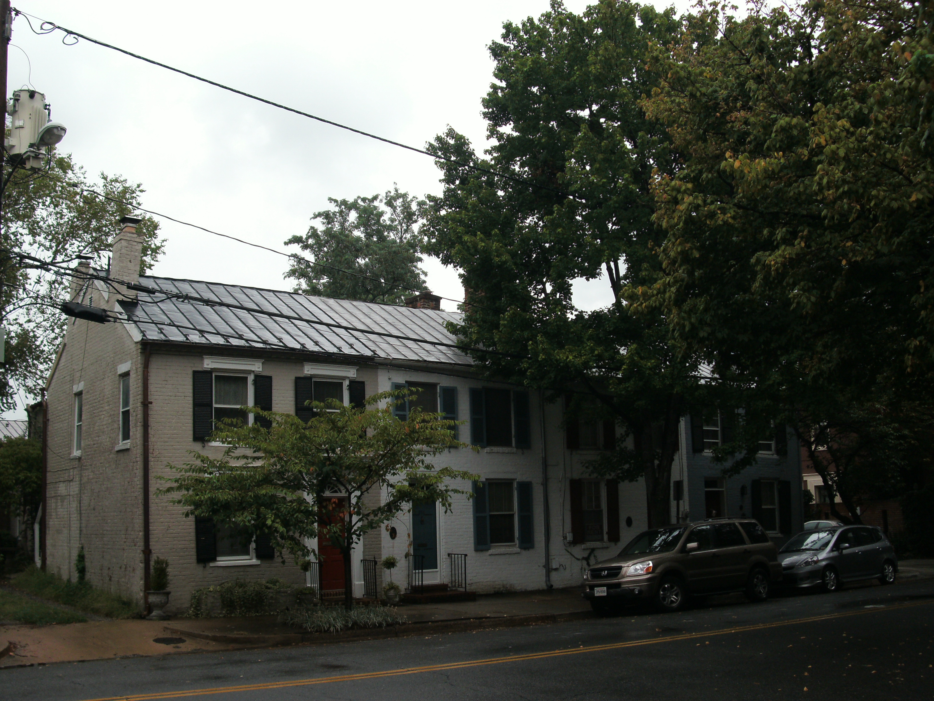 Image taken by me for Wikipedia